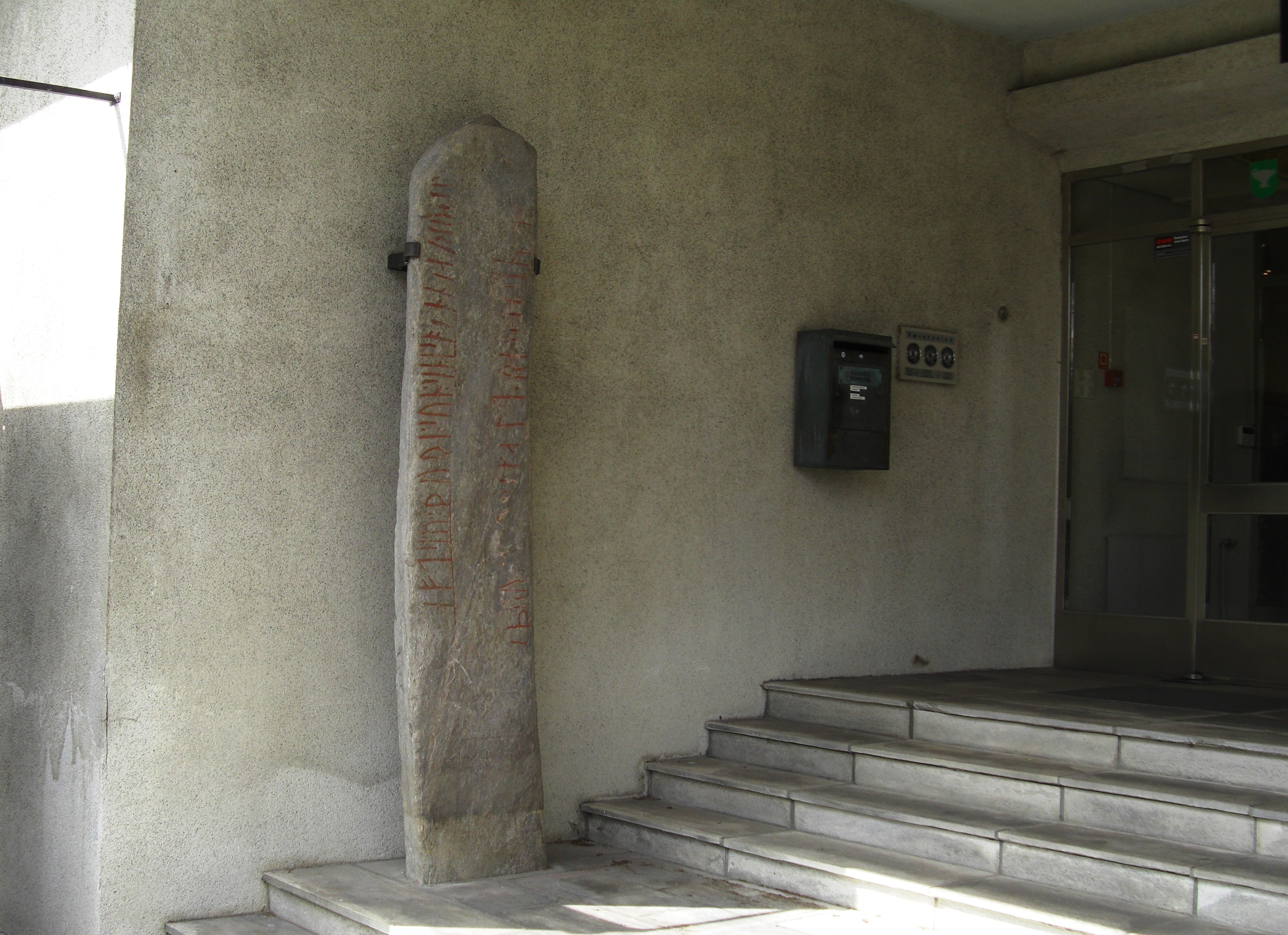 Stangelandsteinen